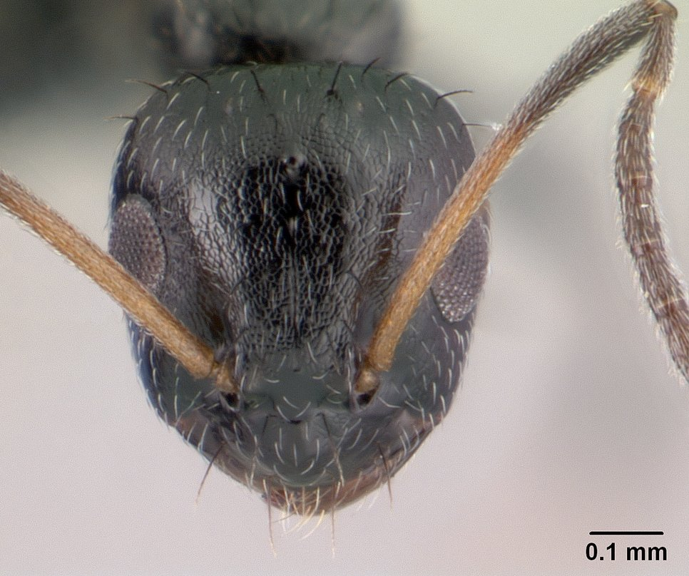 Head view of ant Lepisiota capensis specimen casent0146042.